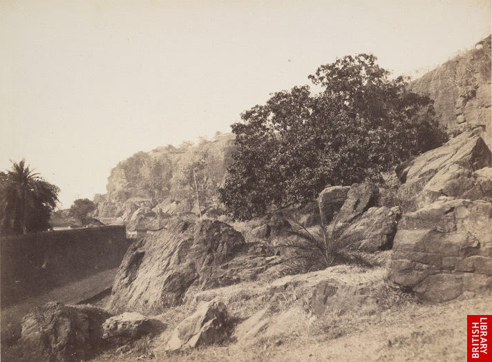 Malabar Hill, Mumbai. 1850s. From the Original - Photograph looking at the eastern part of Malabar Hill, Bombay from 'Views in the island of Bombay' by Charles Scott,1850s. Malabar Hill, the highest point in Bombay, is where the Silhara Kings (r.810-1260) founded the original Walkeshwar Temple. The temple was destroyed by the Portuguese and rebuilt in 1715 by Rama Kamath. By 1860, the temple attracted many people and there were 10 to 20 other temples around it and 50 dharamshalas. Fairs were held near the temple. Mountstuart Elphinstone built the first Bungalow in Malabar Hill during his governorship from 1818 to 1827. After this many more people built houses here and the area became a posh locality which it still remains.